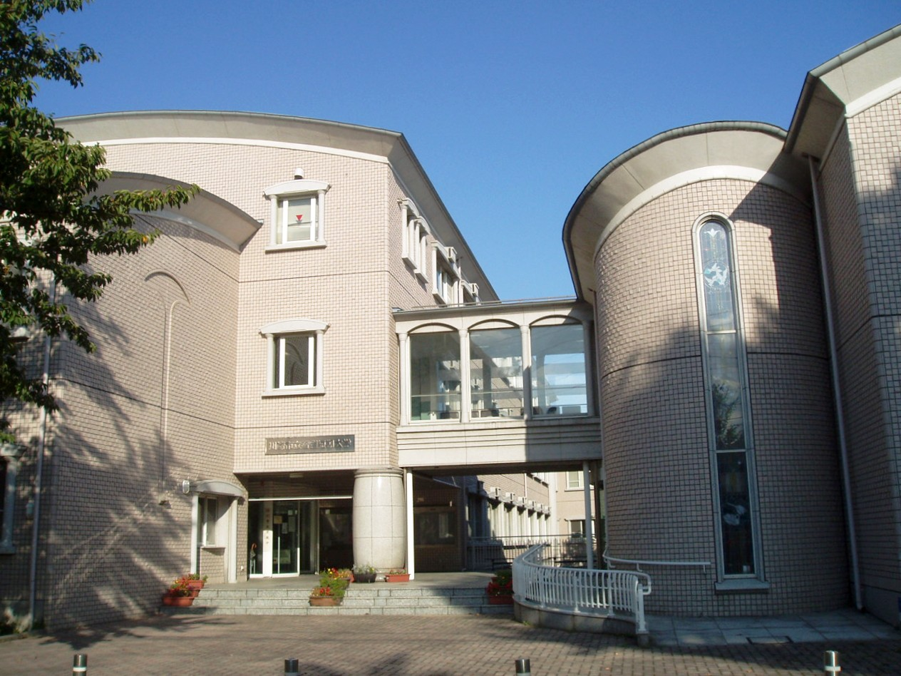 Main entrance to Kawasaki City College of Nursing located in Saiwai-ku, Kawasaki, Kanagawa, Japan.